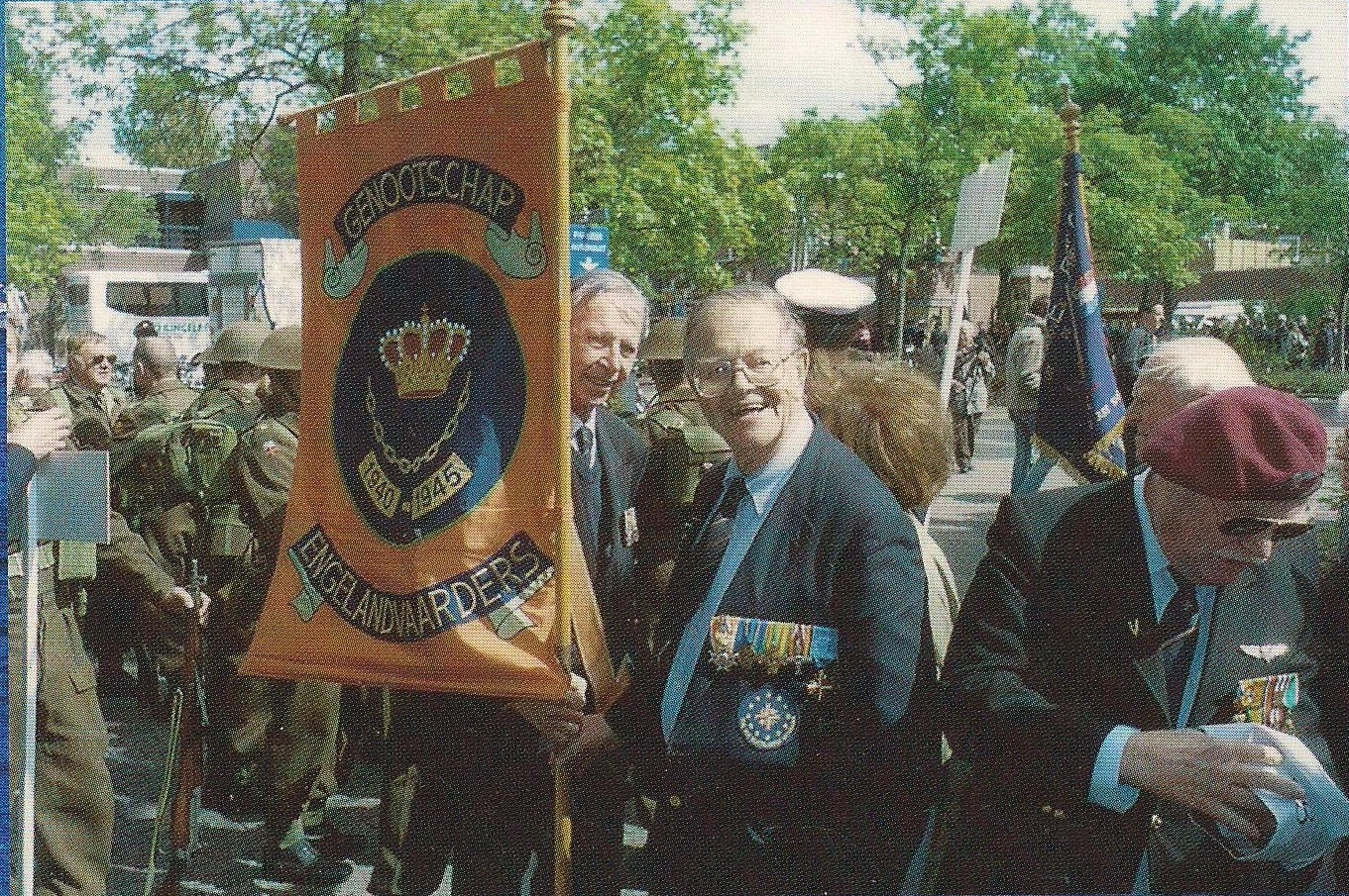 Bevrijdingsdag defile te Wageningen 2005